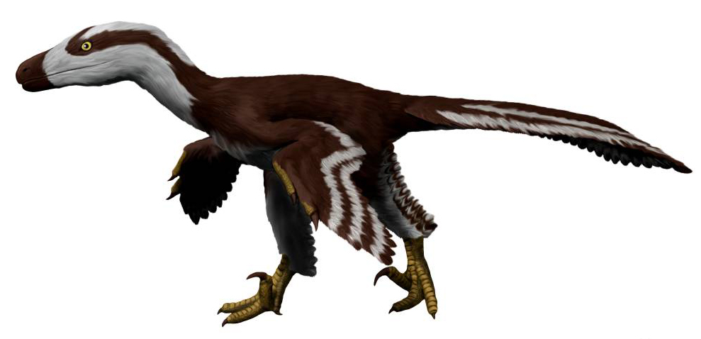 Life reconstruction of Acheroraptor temertyorum